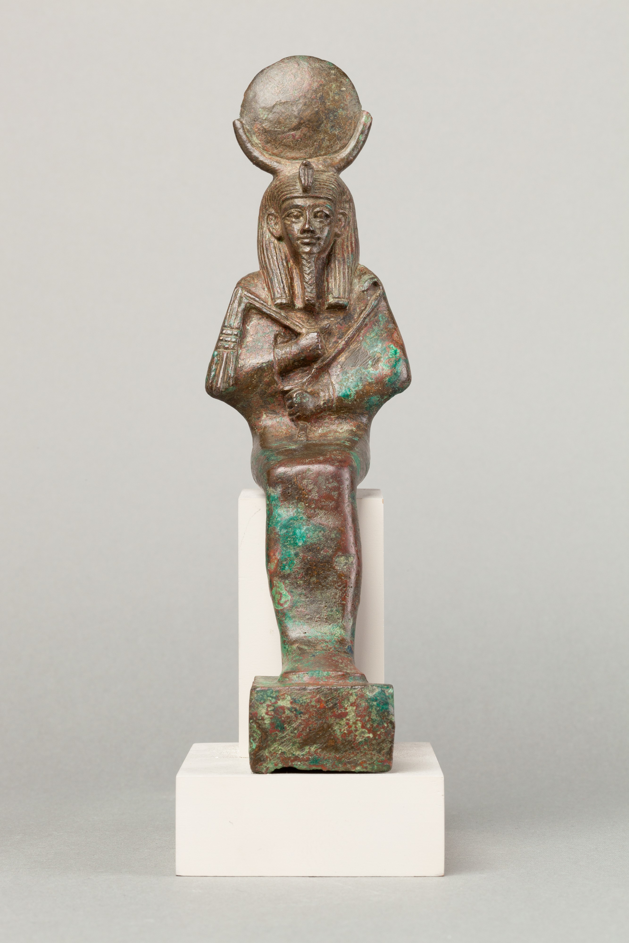 Statuette, Osiris-Iah